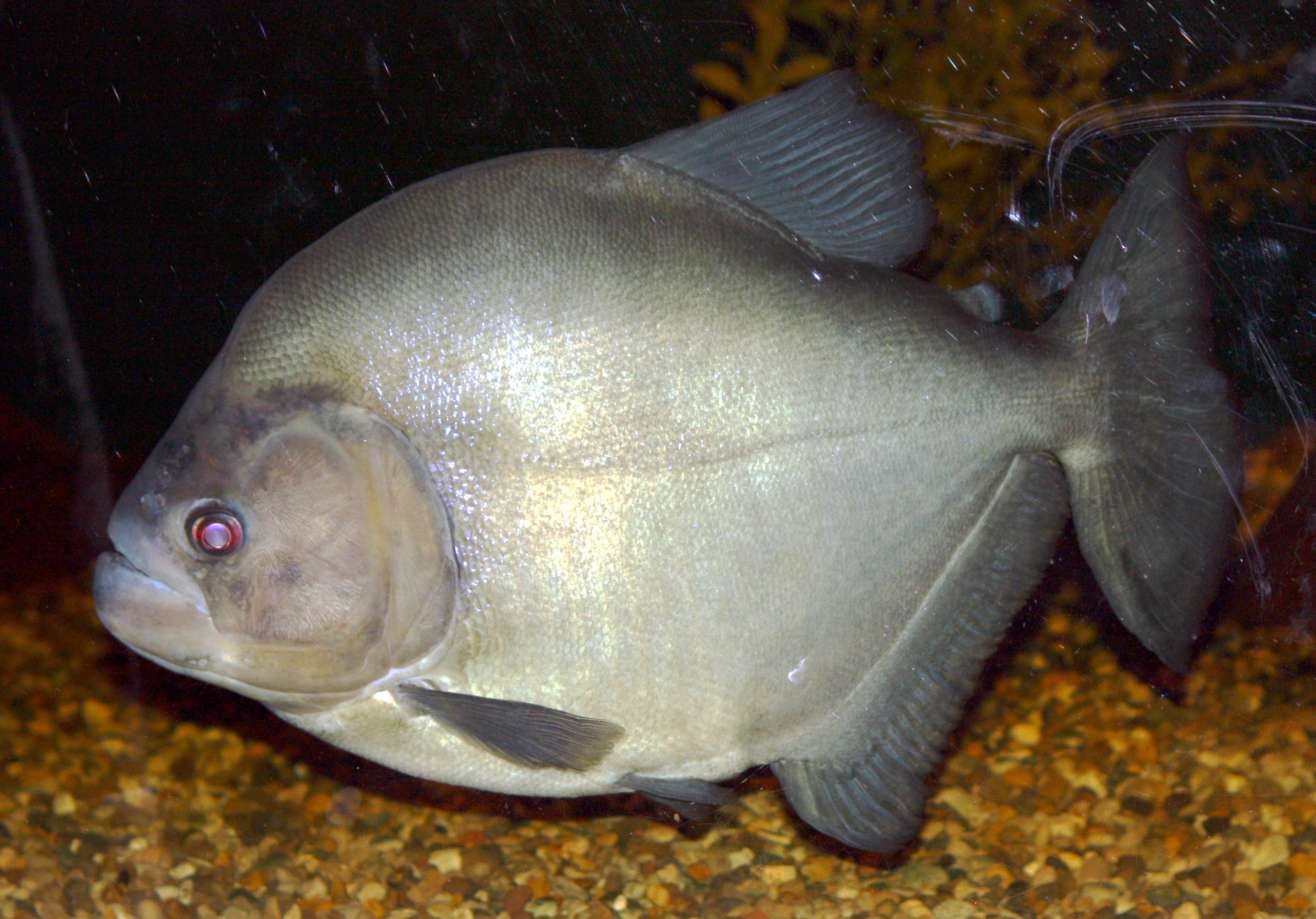 Black Pirahna Serrasalmus rhombeus at the Louisville Zoo